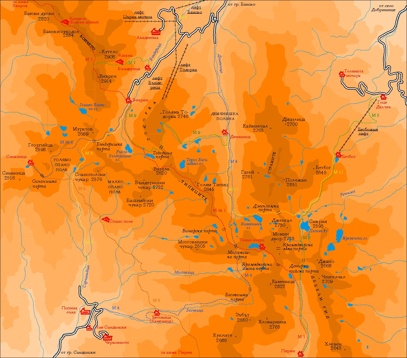 Map of chalets in Pirin mountain, Bulgaria